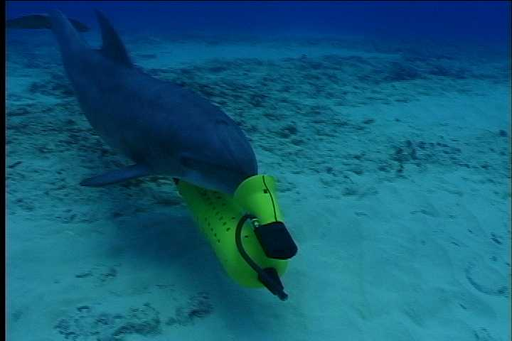 In the MK 7 MMS, dolphins are trained to detect and/or mark the location of mines sitting on the ocean bottom or buried in sediment.